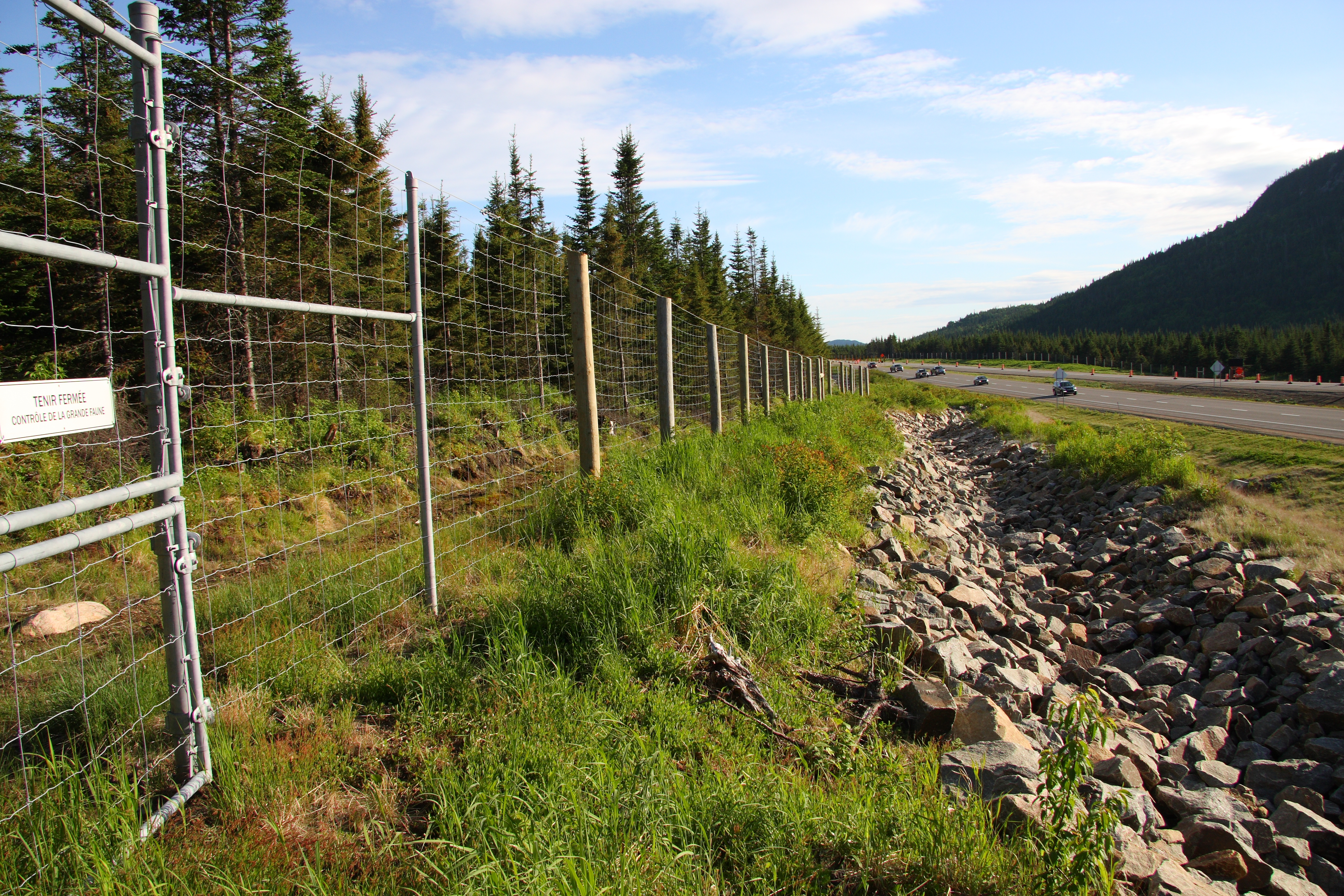 Big game fencing along A73 highway, Quebec, Canada.